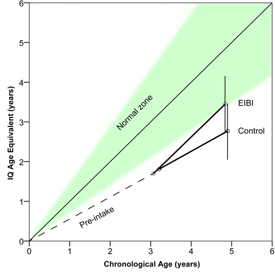 Effectiveness of EIBI on developmental trajectories of children with autism. Klintwall, Eldevik & Eikeseth (2015)